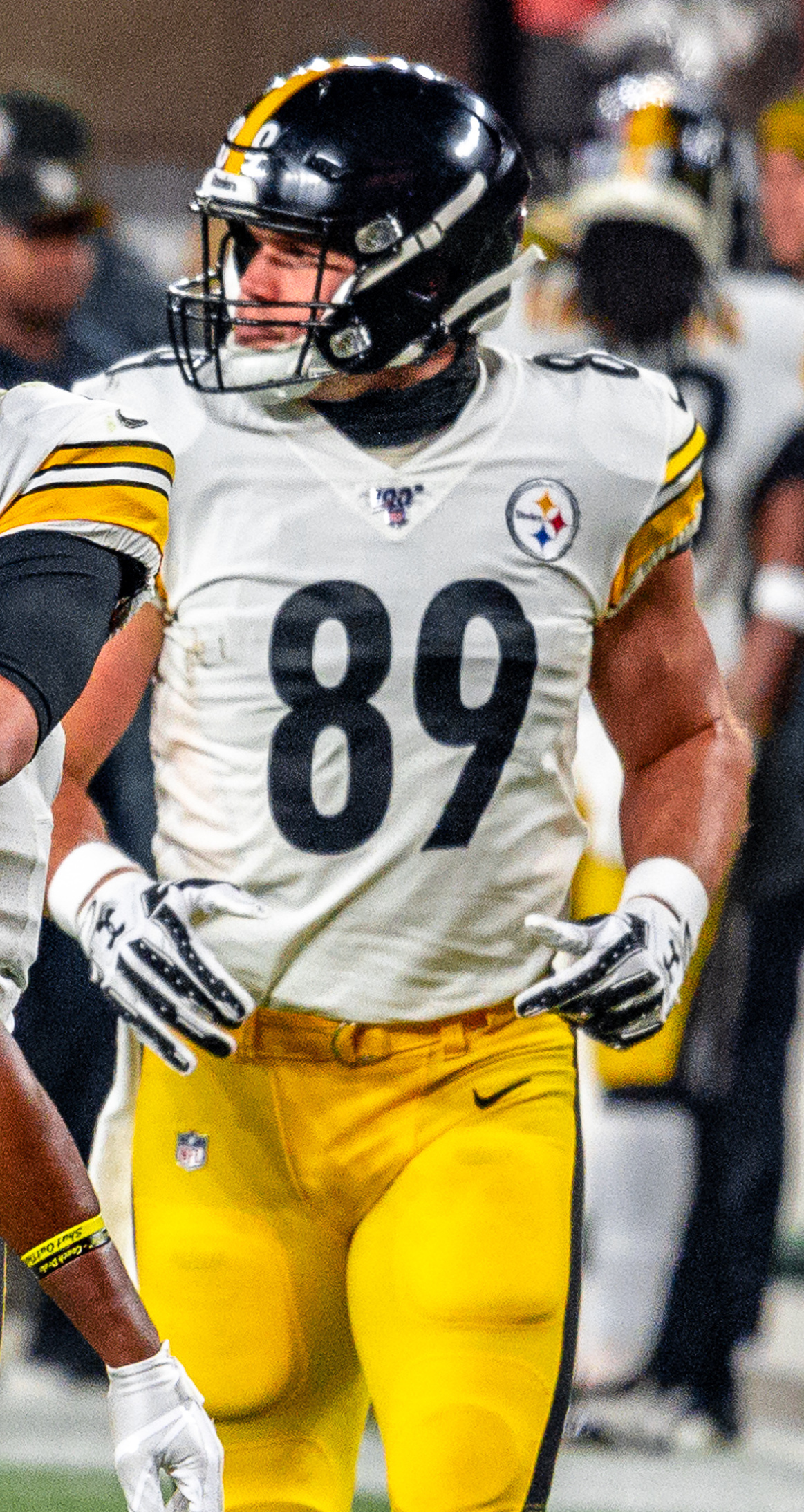 Steelers vs Browns 2019